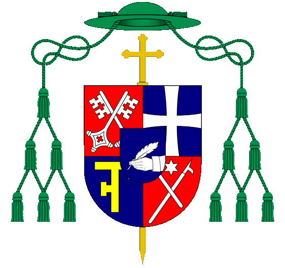 Coat of arms of Christian Schreiber as Bishop of Berlin